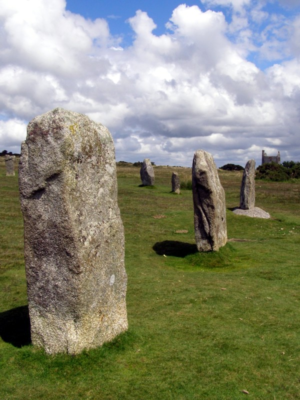 The Hurlers - Stone Circle - Liskeard, Cornwall, UK